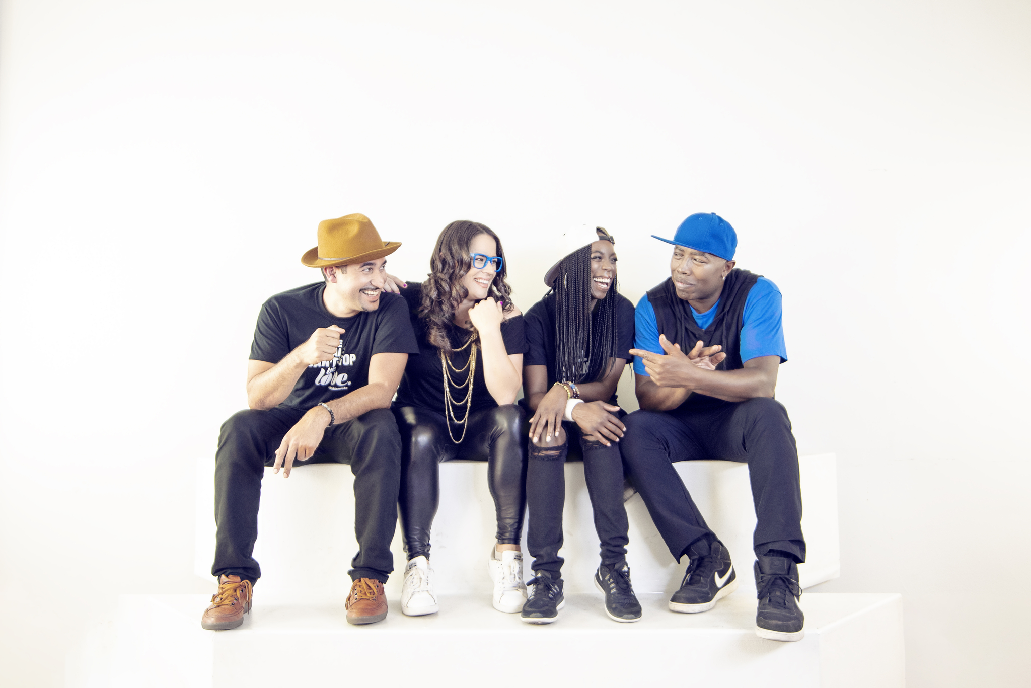 A photo of Alphabet Rockers (publicity photo by Nino Fernandez).